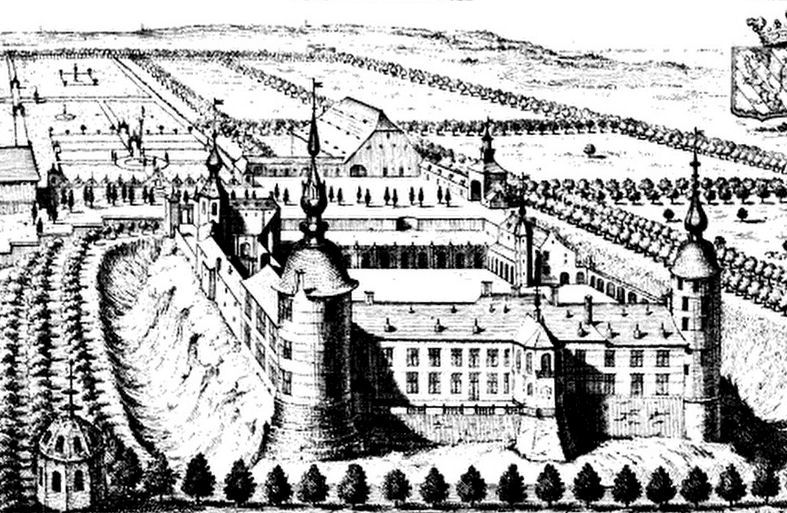 Engraving Brabantia Illustrata/Jacques Le Roy - 1705